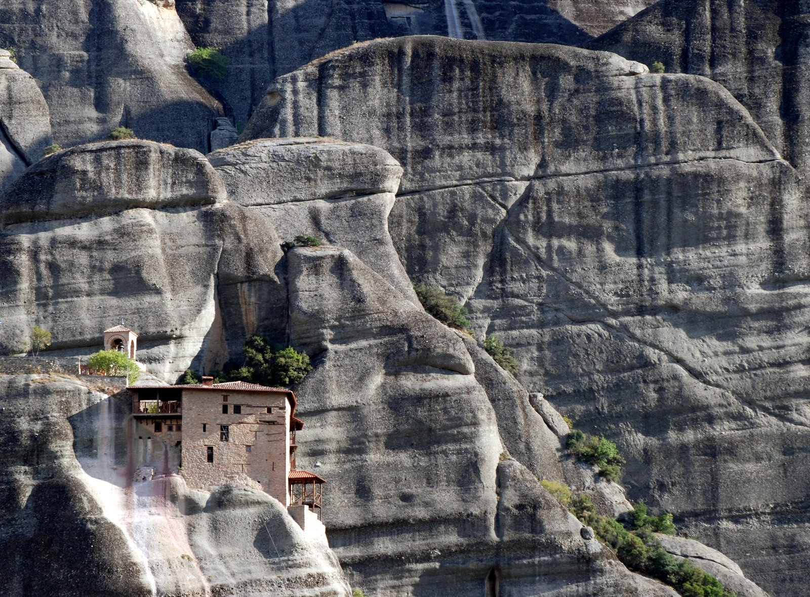 The Holy Monastery of St. Nicholas Anapausas